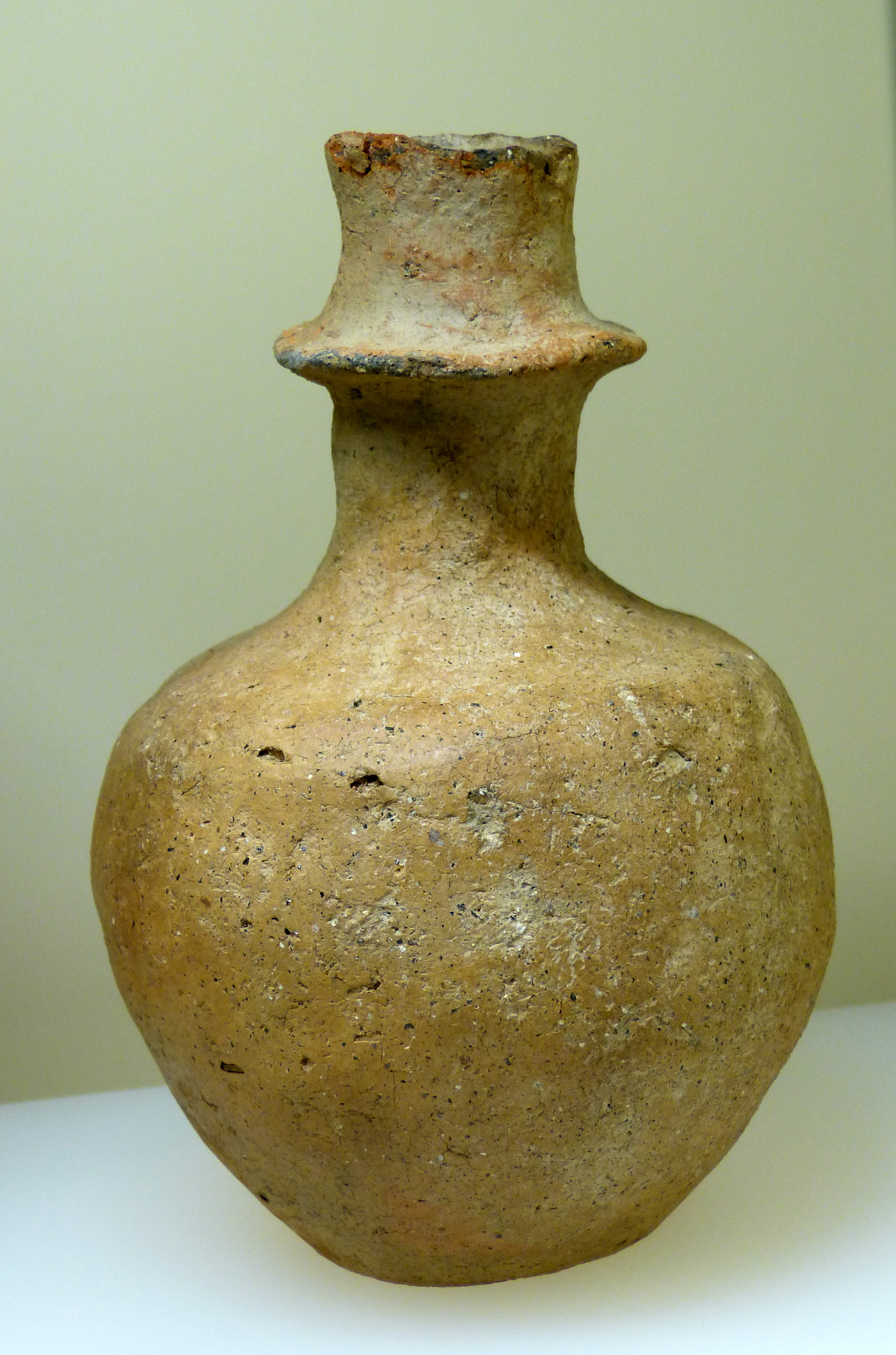 Brandenburg an der Havel ( Germany ) . Archaeological Museum of the state of Brandenburg - Stone Age Gallery:Funnelbeaker culture bottle ( 4th millennium BC ), from Hänchen.